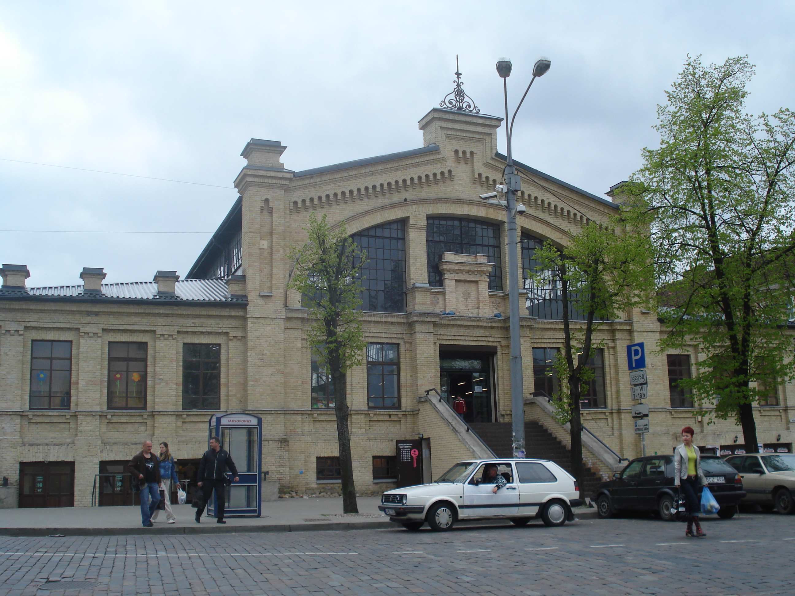 Covered Halės market in Vilnius. Architect Wacław Michniewicz, 1904-1906Lietuvių: Halės turgus Vilniuje. Arch. Vaclovas Michnevičius, 1904-1906